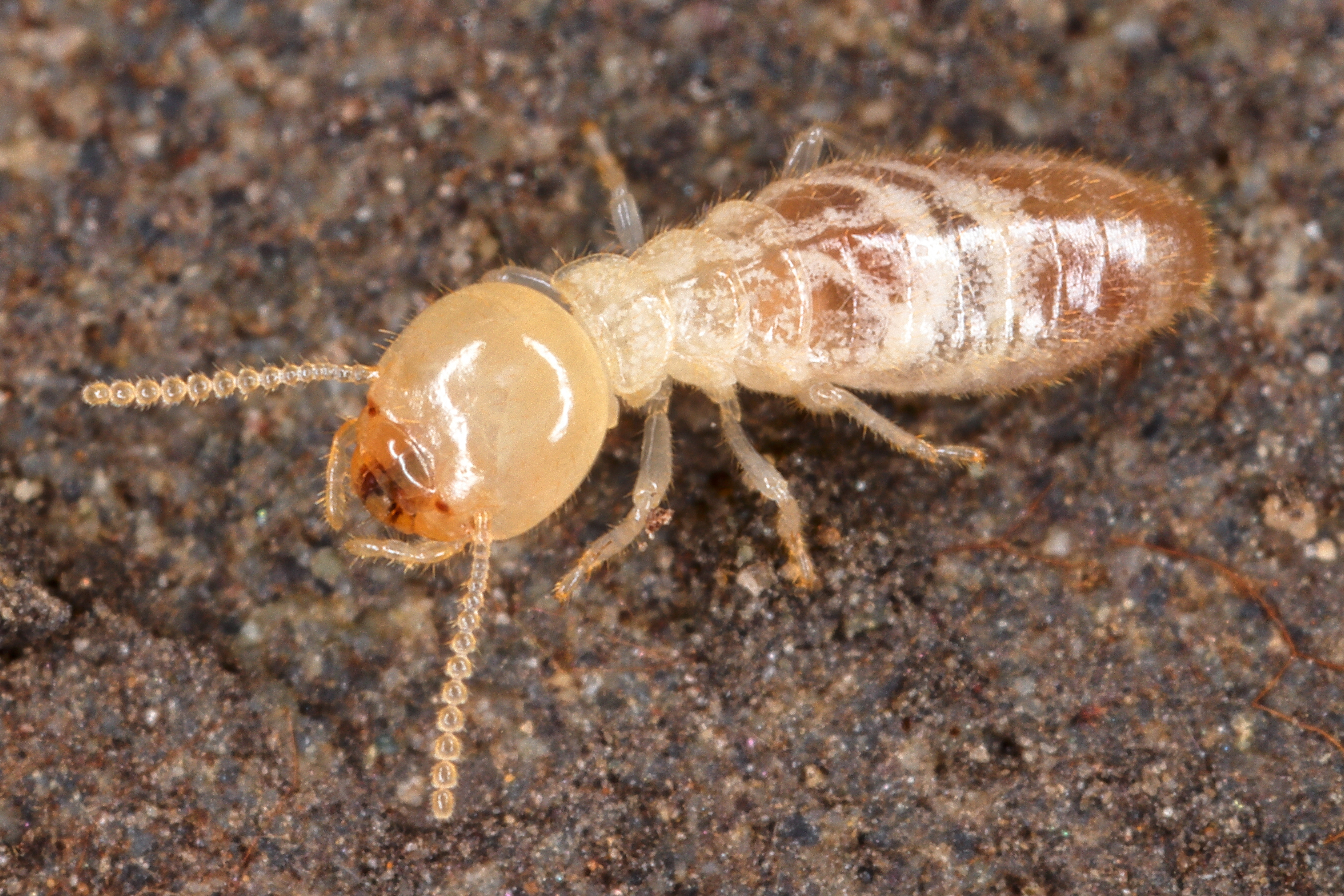 Macro image of a termite (Isoptera). This particular one was found under a rock.